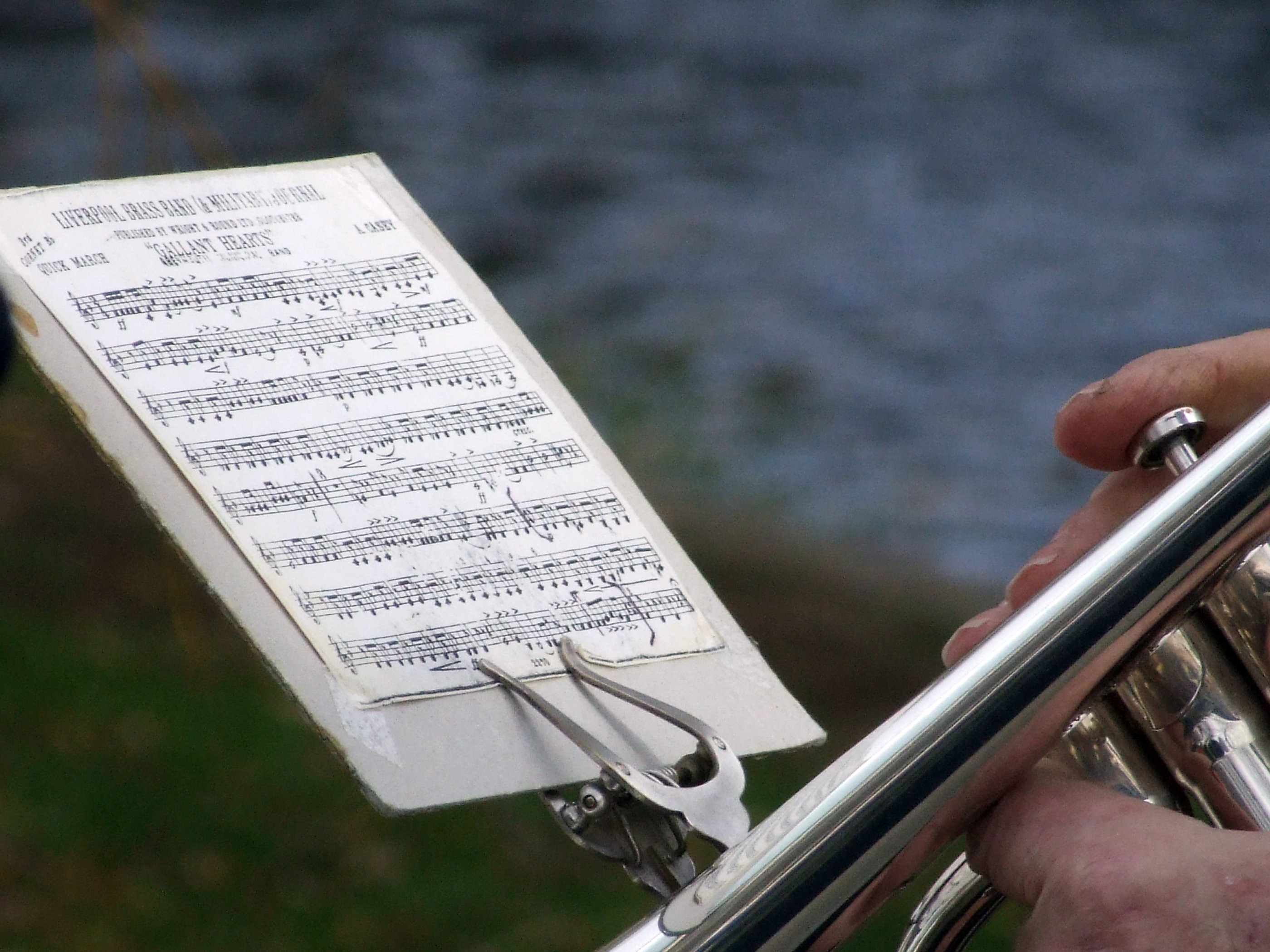 Song sheet attached to a trumpet partaking in the 2008 street parade section of Festival of Brass in Christchurch, New Zealand.